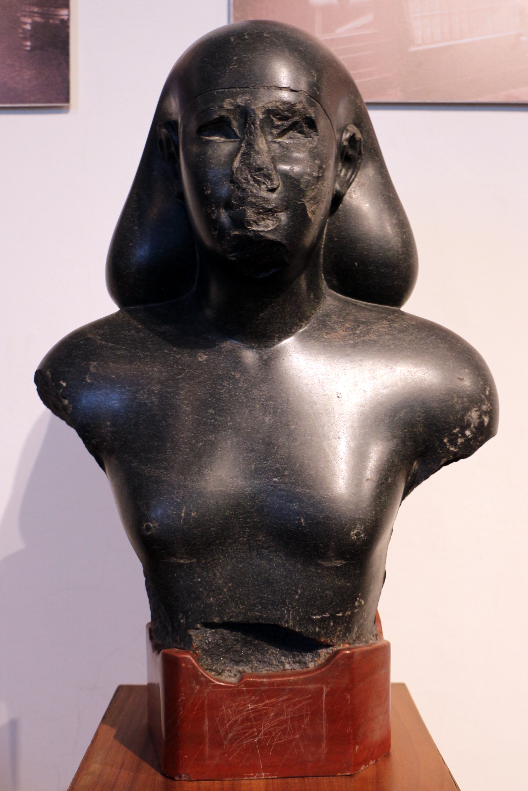 Egyptian antiquities in Museo Barracco (Rome)